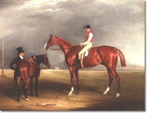 Painting of the British racehorse Velocipede. circa 1829. Painted by John Ferneley (1782-1860). Artist dead for 152 years.